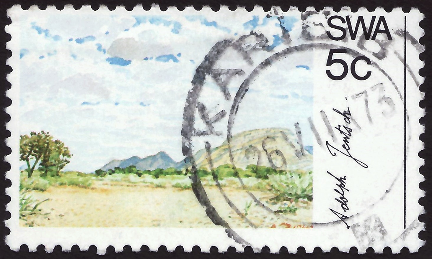 Stamp of South West Africa (SWA); 1973; commemorative stamp of the issue "Paintings"; stamp motive with a painting by Adolph Jentsch (1888-1977) with the title "Landscape in South West Africa". This watercolour painting was created after 1938 in the style of the impressionistic naturalism in the tradition of the Biedermeier and was long time located in the "Dyman Gallery", Stellenbosch (RSA).; Contemporary, this painting is probably in private possession.; stamp postmarked in Karibib in 1973 Stamp: Michel: No. 370; Yvert & Tellier: No. 315 Color: multicolored Watermark: none Nominal value: 5 C (Cents) (decimal currency) Postage validity: from 1 May 1973 until 1994 date QS:P,+1950-00-00T00:00:00Z/7,P580,+1973-05-01T00:00:00Z/11,P582,+1994-00-00T00:00:00Z/9 Stamp picture size (printed area without signature line): 37.5 x 22.0 mm Postmark: Karibib (then South West Africa, contemporary Namibia), 26 July 1973